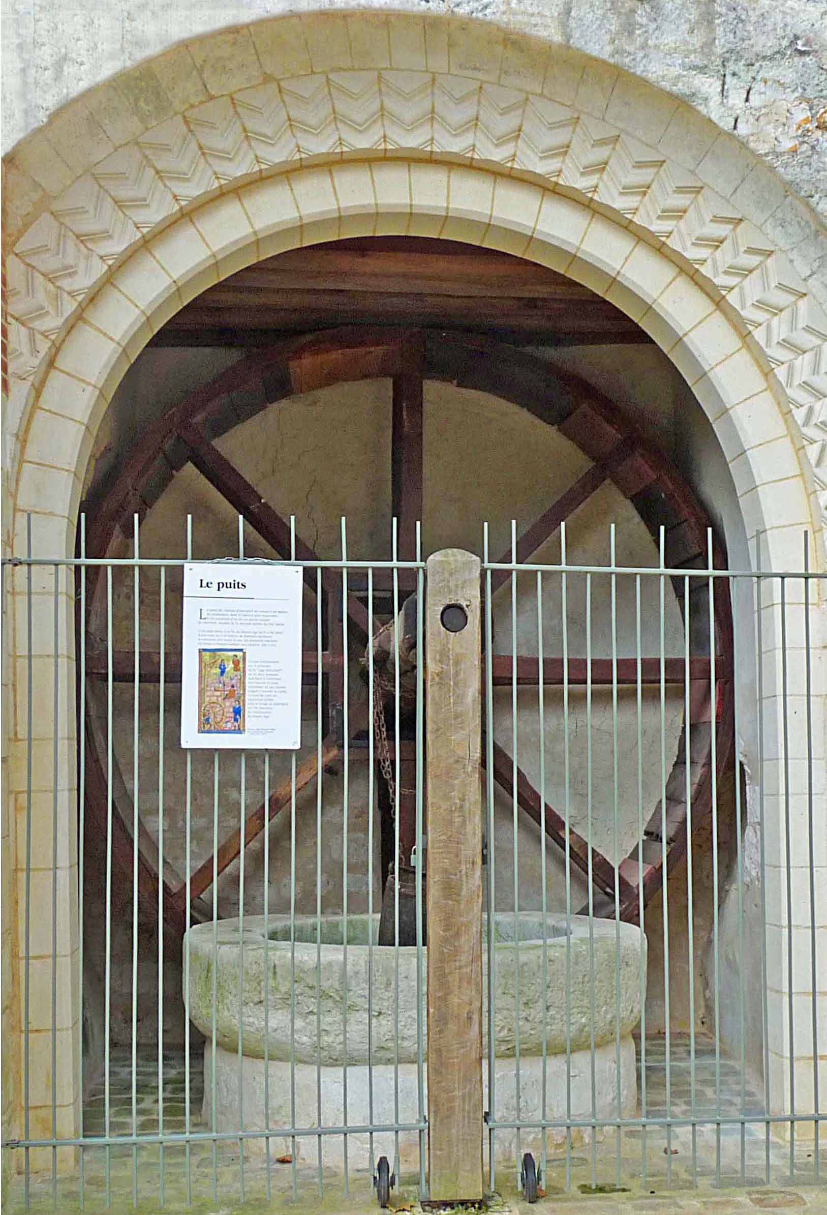 The well and its spinning wheel in climbing frame